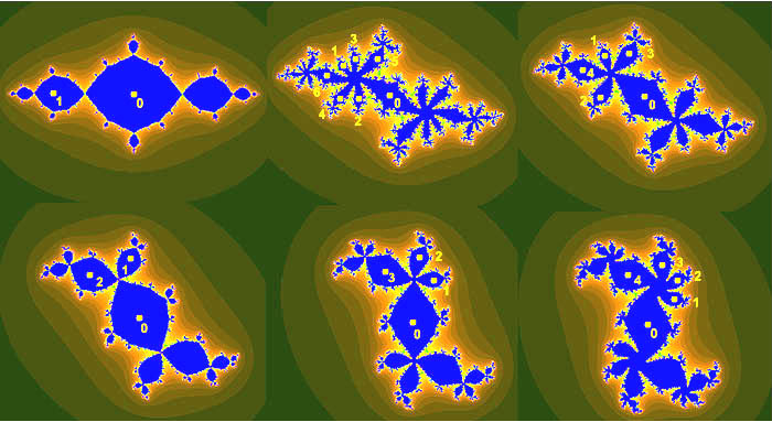 Superattracting cycles of 1/2-bulb, 3/7-bulb, 2/5-bulb, 1/3-bulb, 1/4-bulb and 1/5-bulb of the Mandelbrot set and the corresponding Julia sets.